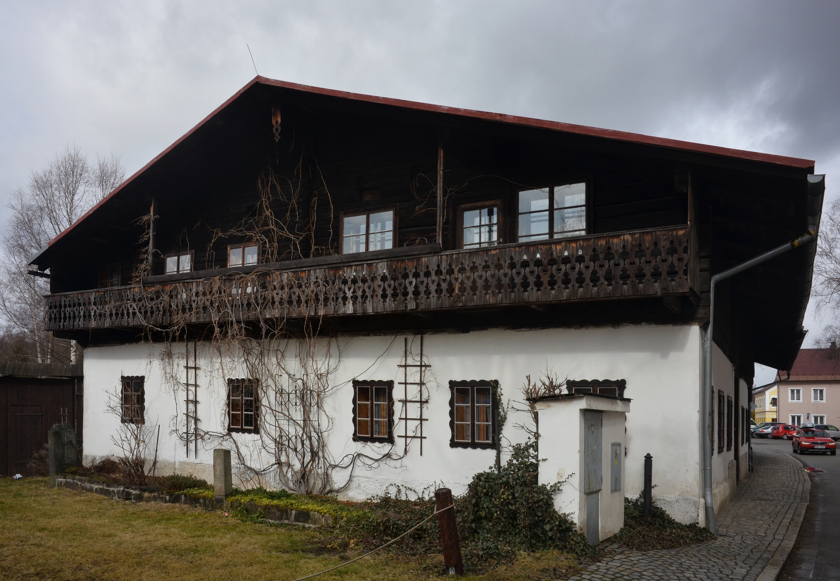 This file was obtained as part of the Editaton Volary project.